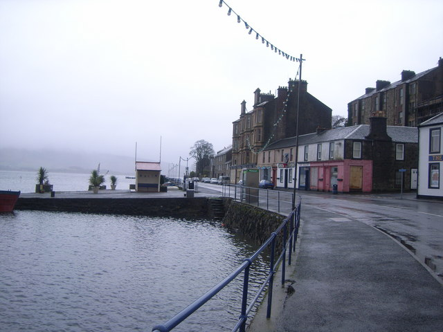 Port Bannatyne, Isle of Bute